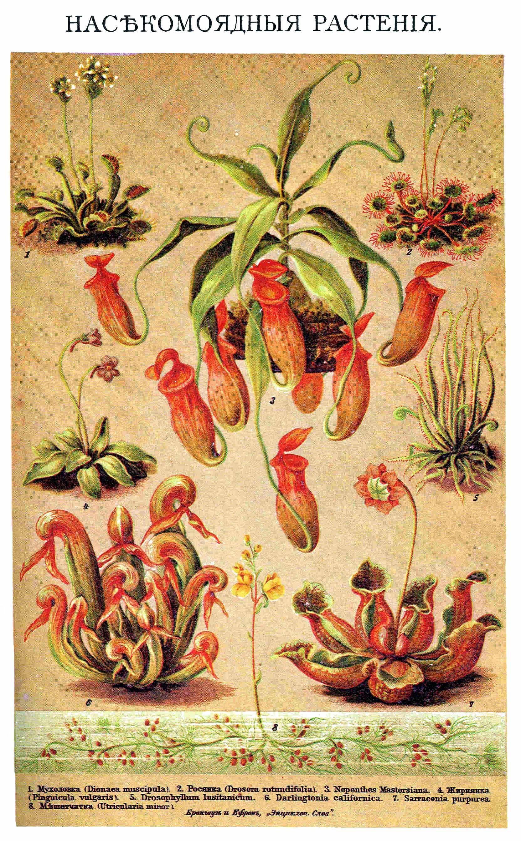 Illustration from Brockhaus and Efron Encyclopedic Dictionary (1890—1907)